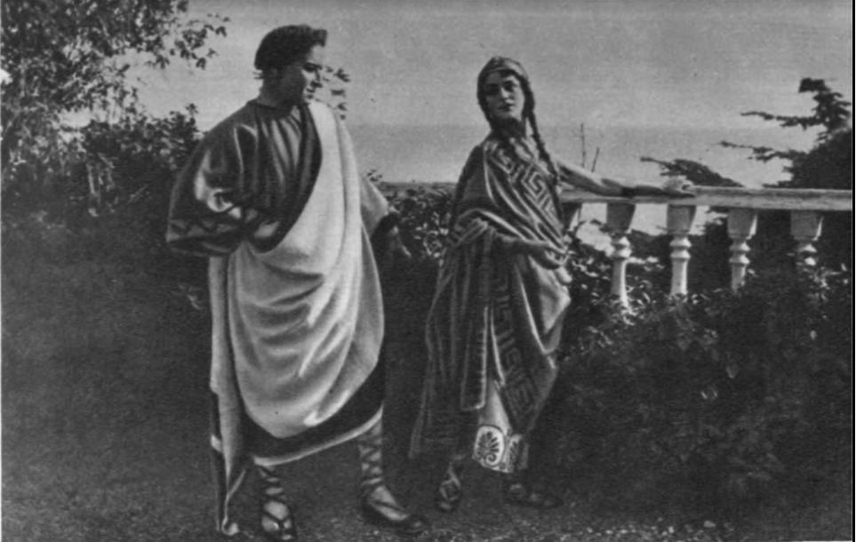 кадры